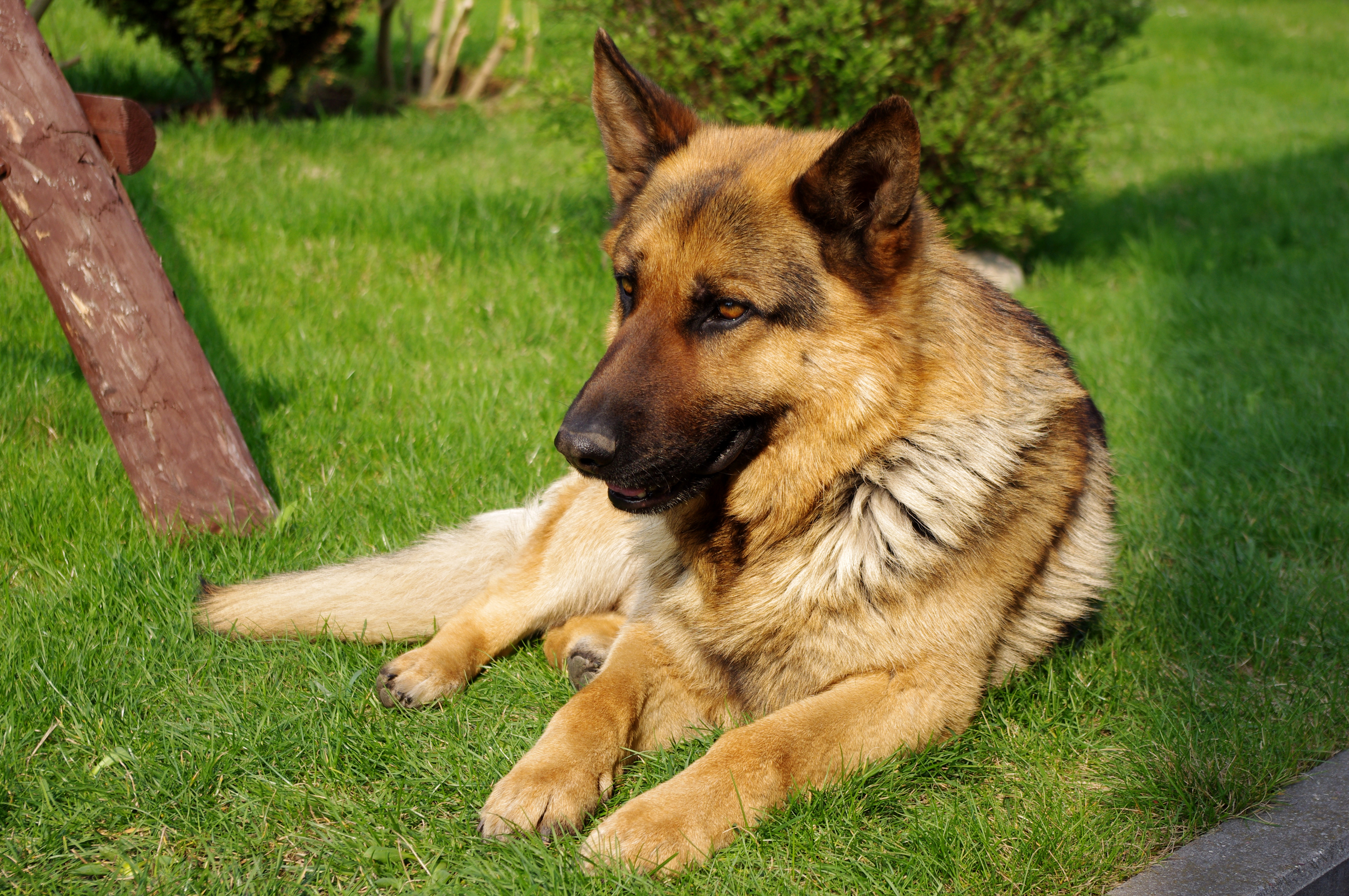 A German Shepherd dog